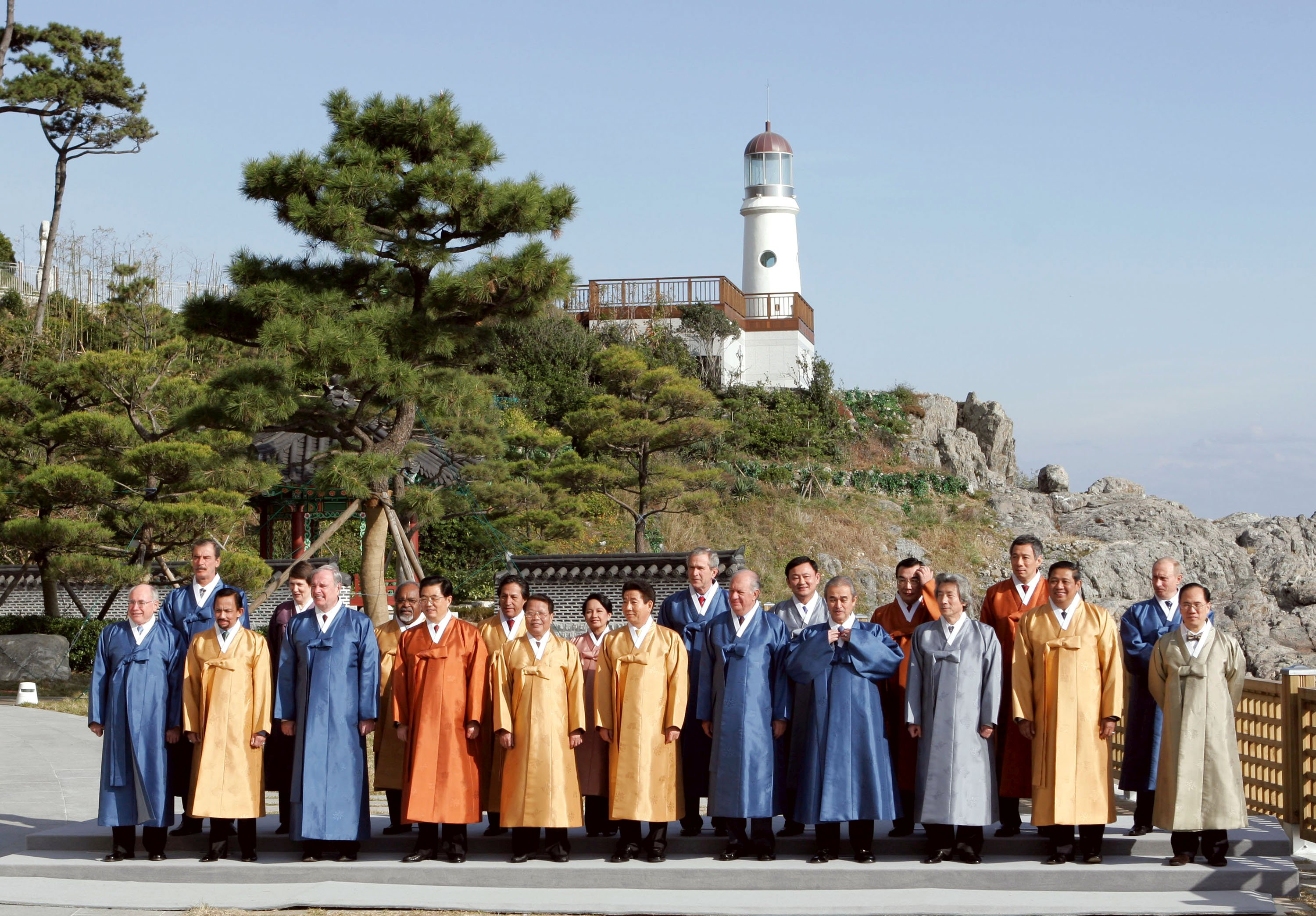 NURIMARU APEC HOUSE, BUSAN. Joint photography session for heads of state and government of the APEC forum member countries.